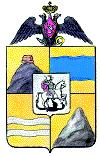 Georgia-Imeretia Governorate (1840-1846)